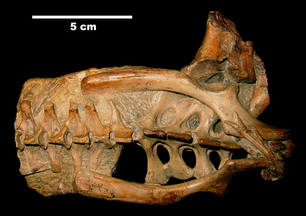 A photograph of partial specimen American Museum of Natural History (AMNH) 22555, posterior dorsal vertebrae, and the sacrum and pelvis (both iliae, and right ischium and pubis) of Anhanguera sp. (formerly often assigned to Anhanguera santanae),[1] from the Early Cretaceous Romualdo Formation (former Romualdo Member of the Santana Formation) of NE Brazil in dorsal view. ↑ cf. fig. 2A (also hosted at Commons), Table 2, and paragraph 50 in: Felipe L. Pinheiro​, Taissa Rodrigues (2017): Anhanguera taxonomy revisited: is our understanding of Santana Group pterosaur diversity biased by poor biological and stratigraphic control? PeerJ 5:e3285